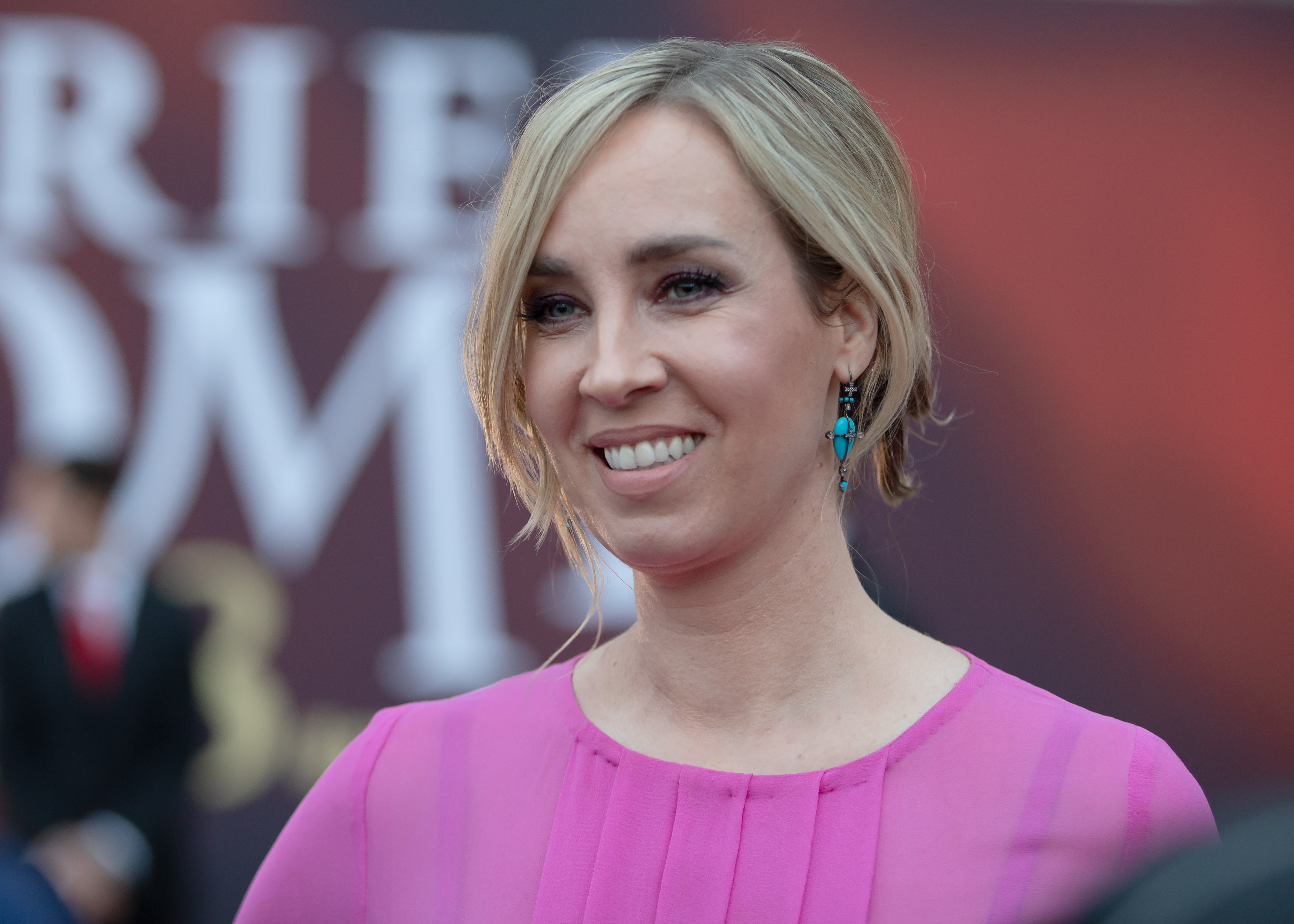 Nadja Bernhard on the red carpet of the Romy TV awards 2018 at Hofburg Palace in Vienna, Austria.